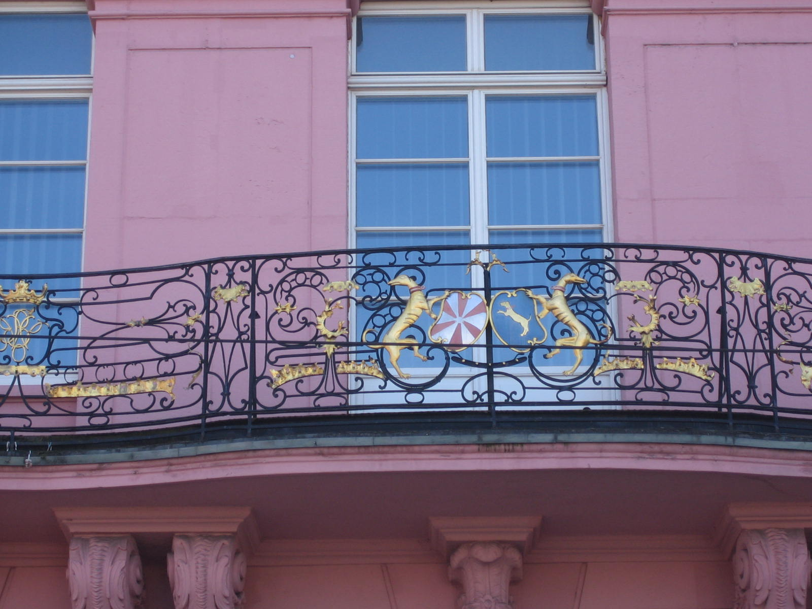 Arms of the Bassenheimers on the Palais Bassenheim in Mainz